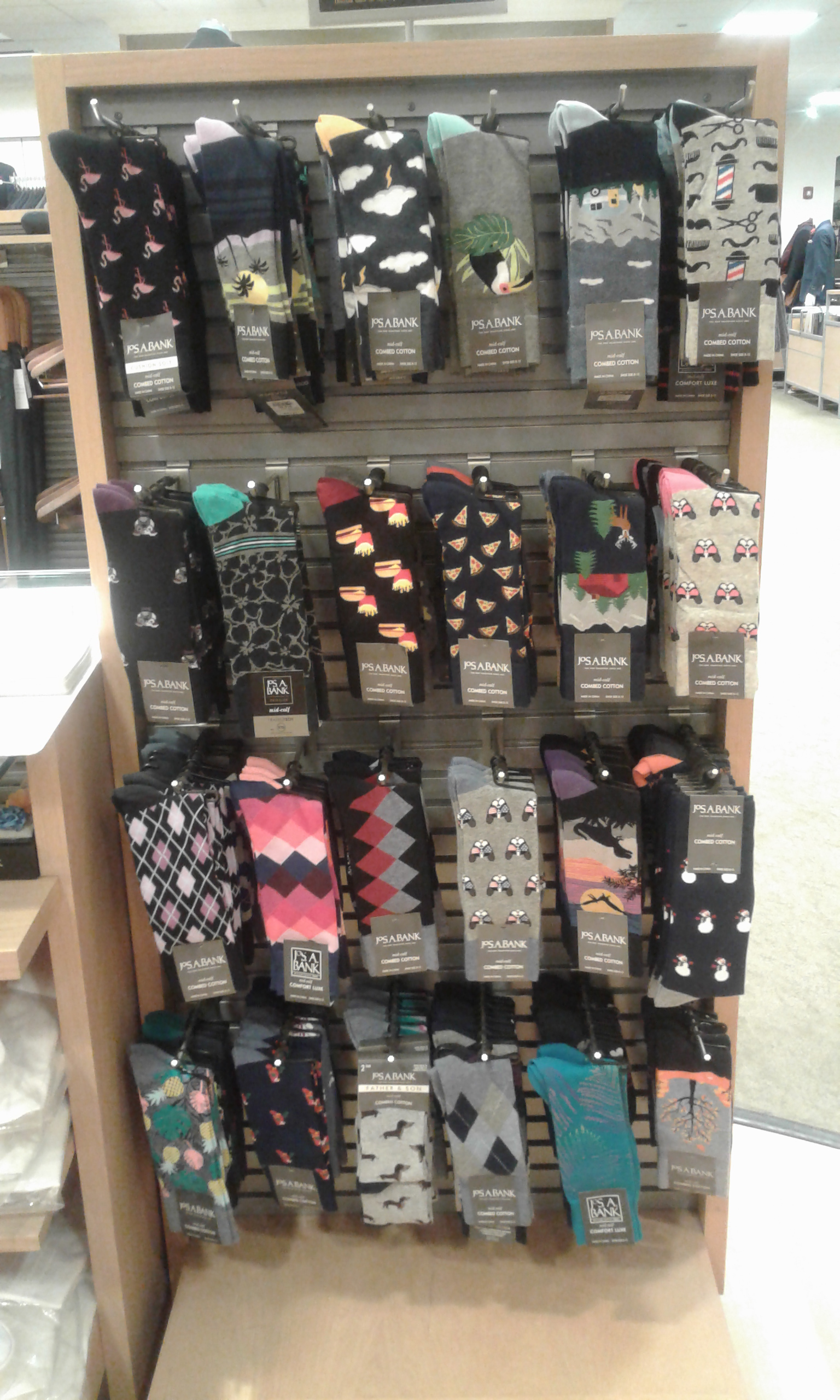 Fancy socks